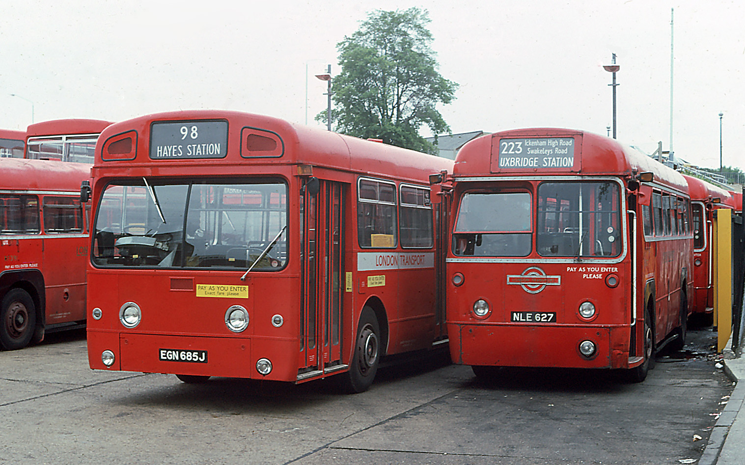 Uxbridge Buses, near to Uxbridge, Hillingdon, Great Britain. A 1976 view of buses between duties next to Uxbridge Station. Vehicles are, on the 98 route an AEC Swift and on the 223 an AEC Regal IV. The Regal, class RF in London Transport terms, was a very successful design entering service in 1951 and remaining in use for up to 30 years - a large number of these vehicles are preserved. The AEC Swift was less successful, entering service in 1970. Many were withdrawn as their major overhauls became due in the late 1970's. This Swift, SMS685, with withdrawn in 1978 whilst RF627 went in 1977 - 8 years of service and 26 years of service respectively.